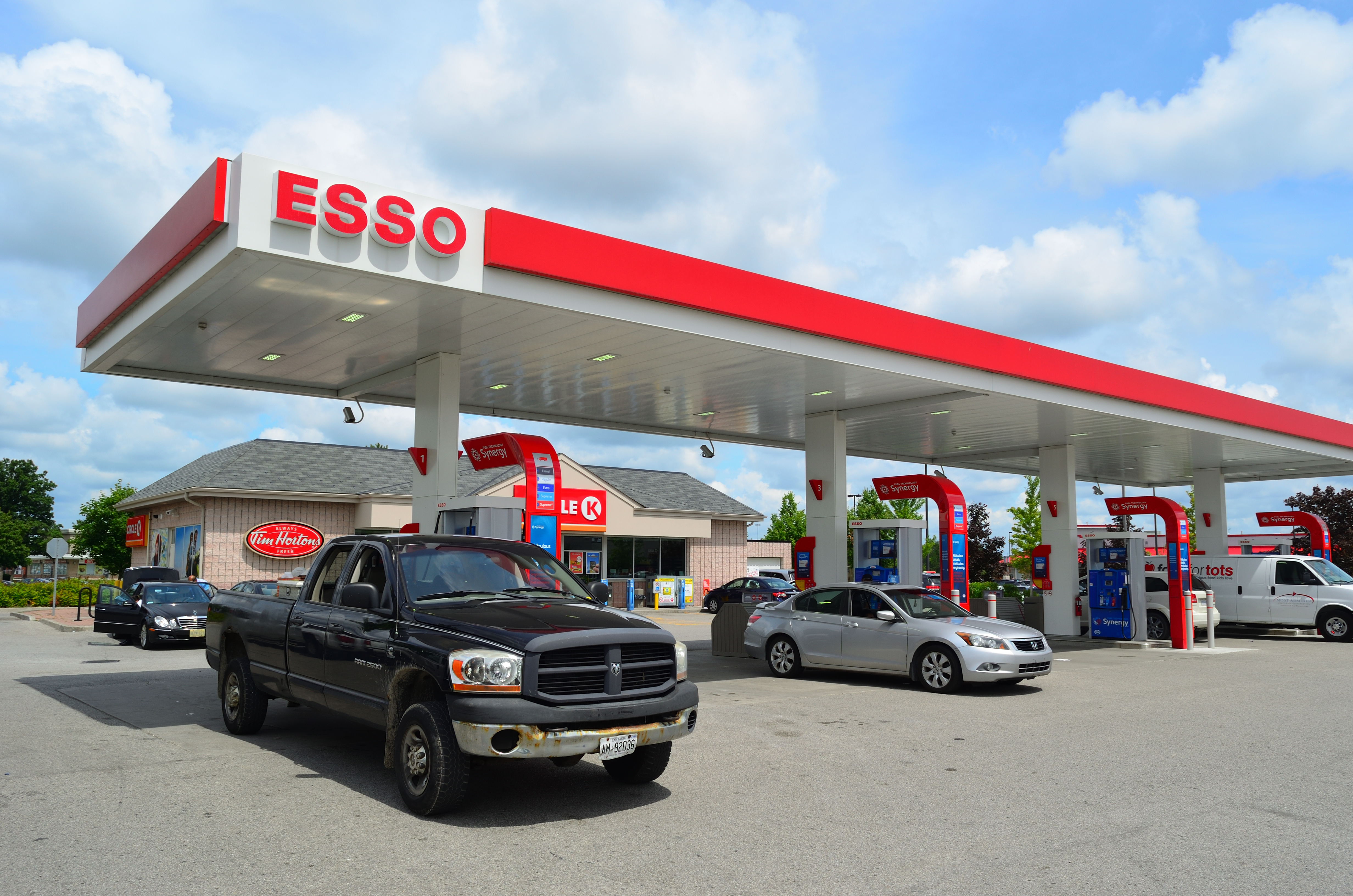 ESSO in Markham - Address: 8291 Woodbine Ave, Markham, ON L3R 2P4